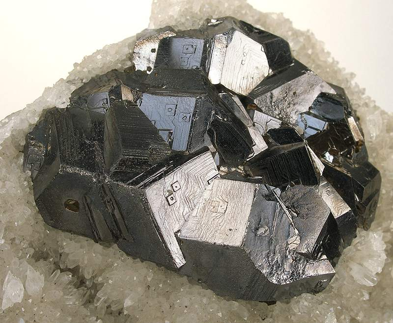 Calcite, Galena, Quartz Locality: Gibraltar Mine (incl. "Cave of Swords"), Naica, Municipio de Saucillo, Chihuahua, Mexico (Locality at ) Size: cabinet, 13.4 x 9.5 x 5.2 cm Galena with Calcite In appearance this galena specimen resembles an Oreo cookie with galena on both sides of a calcite layer. Intergrown, splendent crystals of metallic galena form the bottom/matrix of this piece, draped by a vein of colorless, sparkling calcite crystals. Topping the specimen are large, complexly formed crystals of galena, to 2.5 cm in length. The combination makes a dramatic contrast to display the galena, and a true mineral oddity in its overall appearance. This specimen was on loaned exhibit in the University of Arizona Museum for over a decade until my purchase of this collection in 2008. Ex. Dr. Miguel Romero Collection.